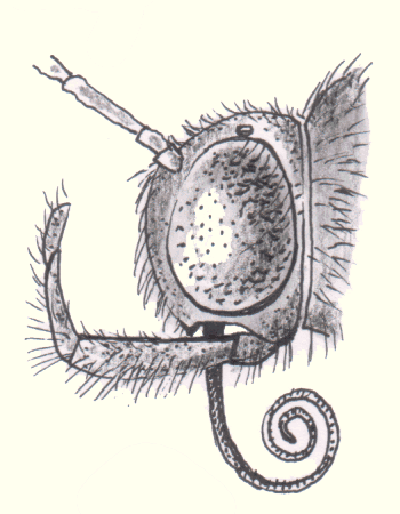 Sucing mouthparts. Lepidoptera. A drawing by Halvard from Norway.